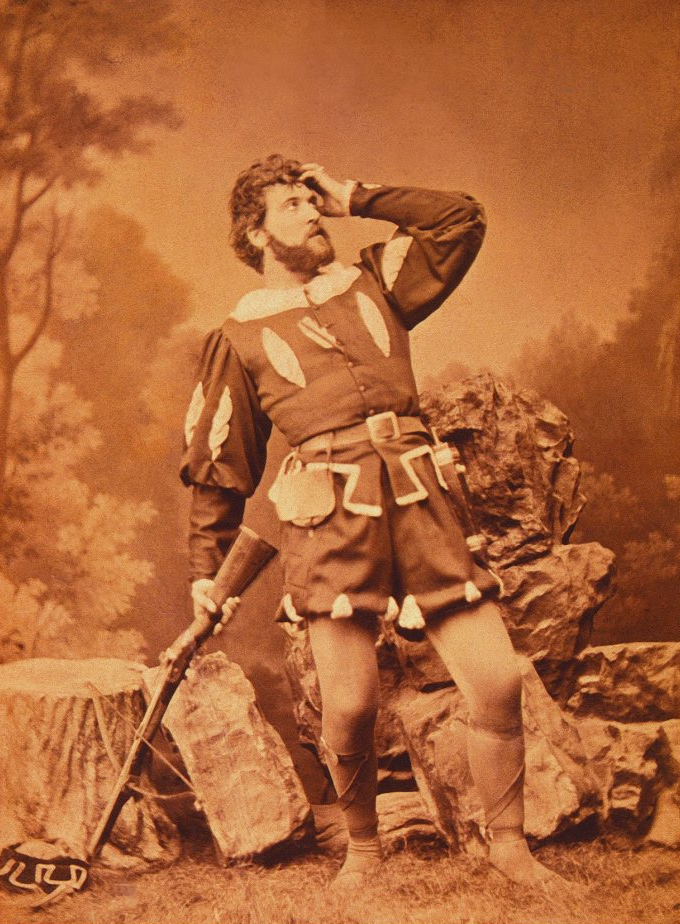 Hungarian singer of Polish origin Vilmos Maleczky (1845–1924) as William Tell National Széchényi Library LocationBudapestCoordinates47° 29′ 53.34″ N, 19° 02′ 14.4″ E Established1802Web page control : Q1063819 VIAF: 157919295 ISNI: 0000 0001 1781 8798 ULAN: 500306655 NLA: 35722893 GND: 1007496-X institution QS:P195,Q1063819 Accession number: KB 6215/1 (Színháztörténeti Tár)